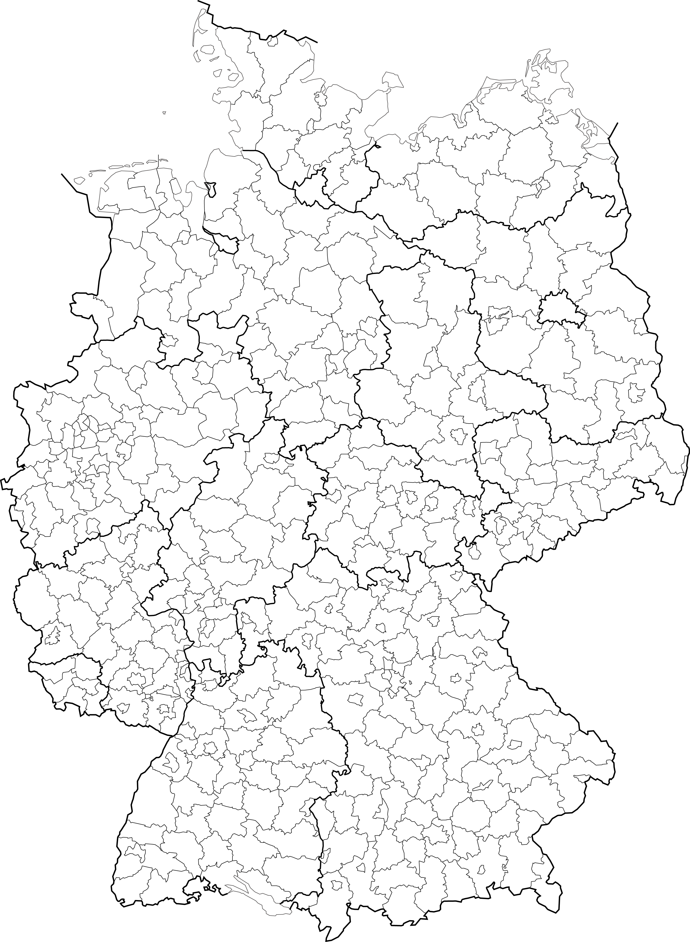 Rural and urban districts of Germany as from from July 1st, 2007 to July 31st, 2008 (after reorganisation of counties in Saxony-Anhalt but before reorganisation of counties in Saxony).